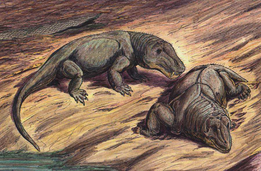 Doliosauriscus.